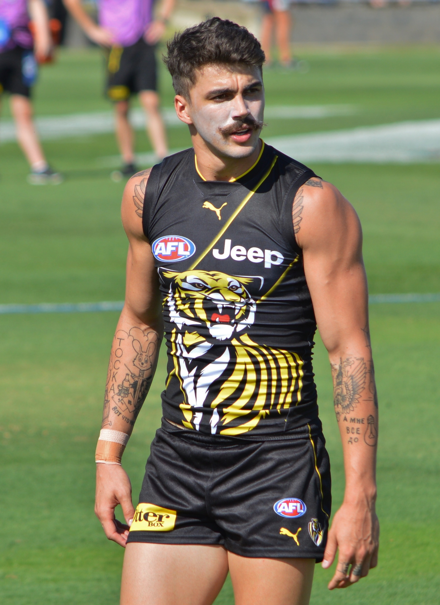 Oleg Markov with Richmond during a JLT Community Series match against Melbourne in Shepparton in March 2019.